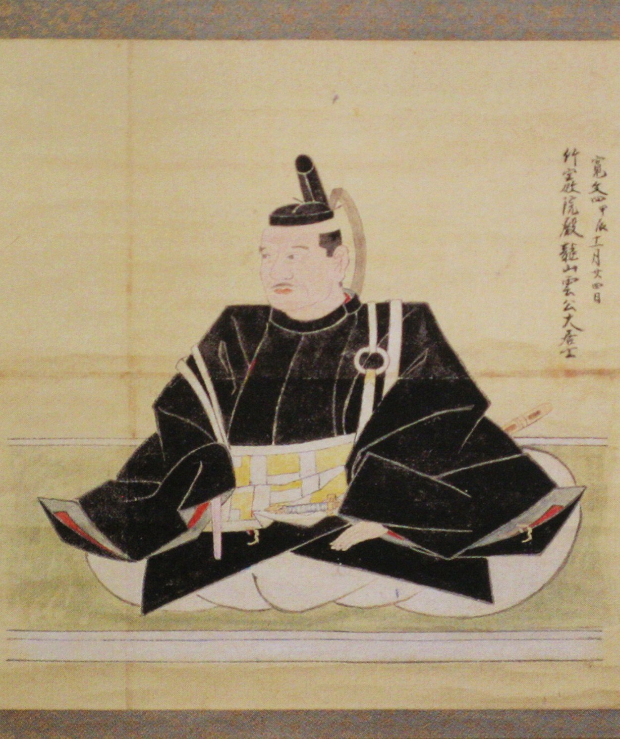 土佐山内家宝物資料館蔵の山内忠義肖像。